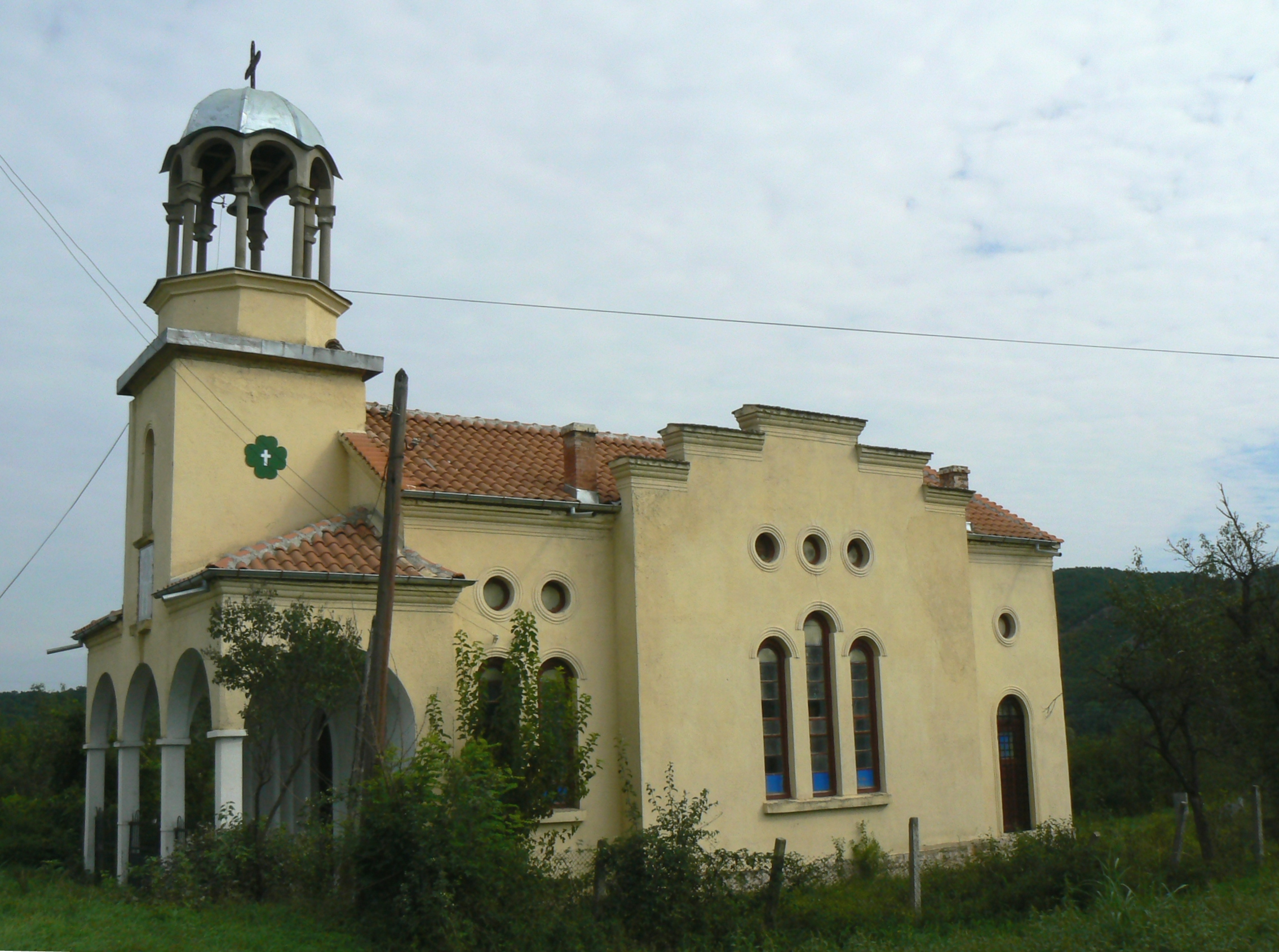 Church "Ascension" in village Zlatna Panega, Bulgaria